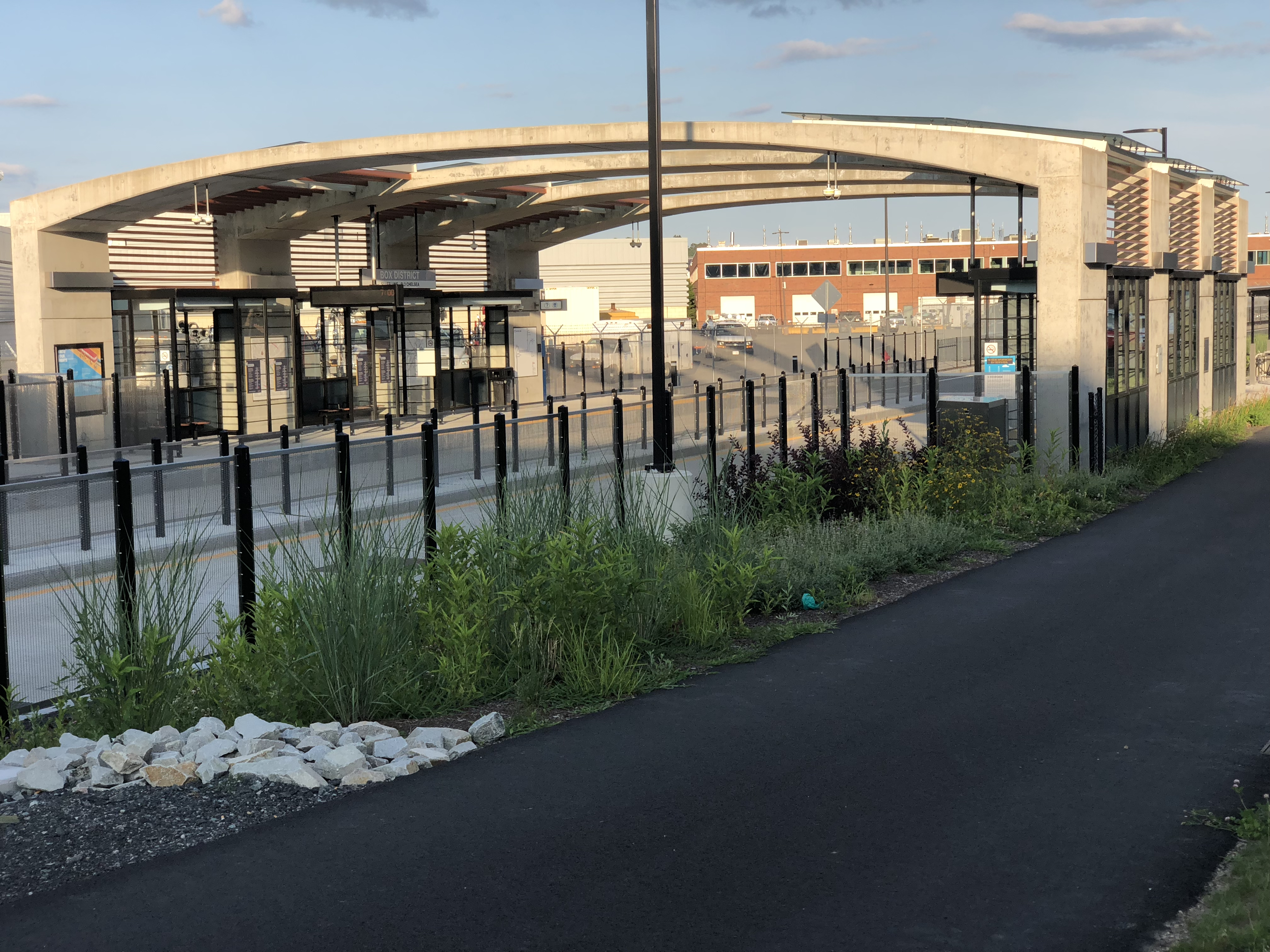 Box District station, MBTA SL3 line